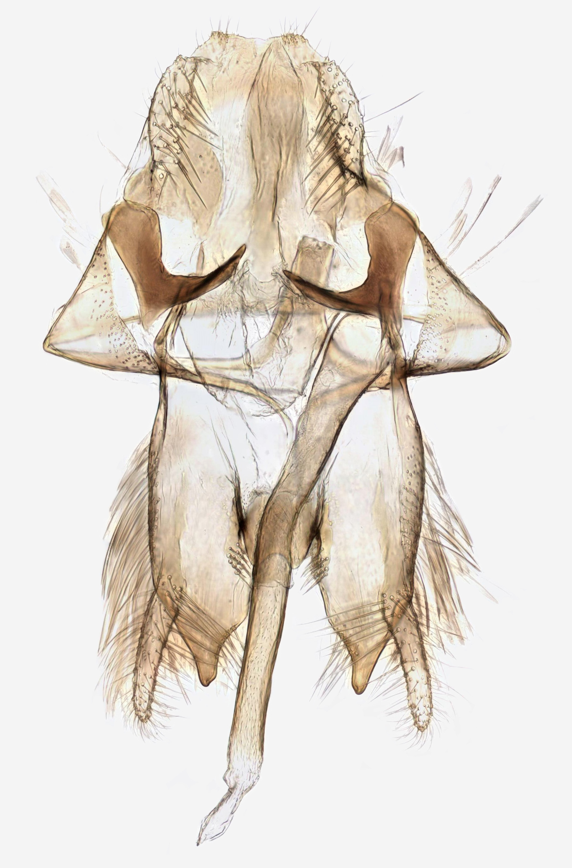 Nemapogon cloacella, Wolverhampton, England, June 2016